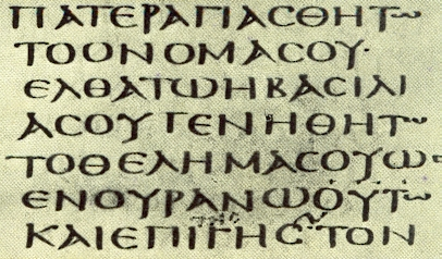 Codex sinaticus